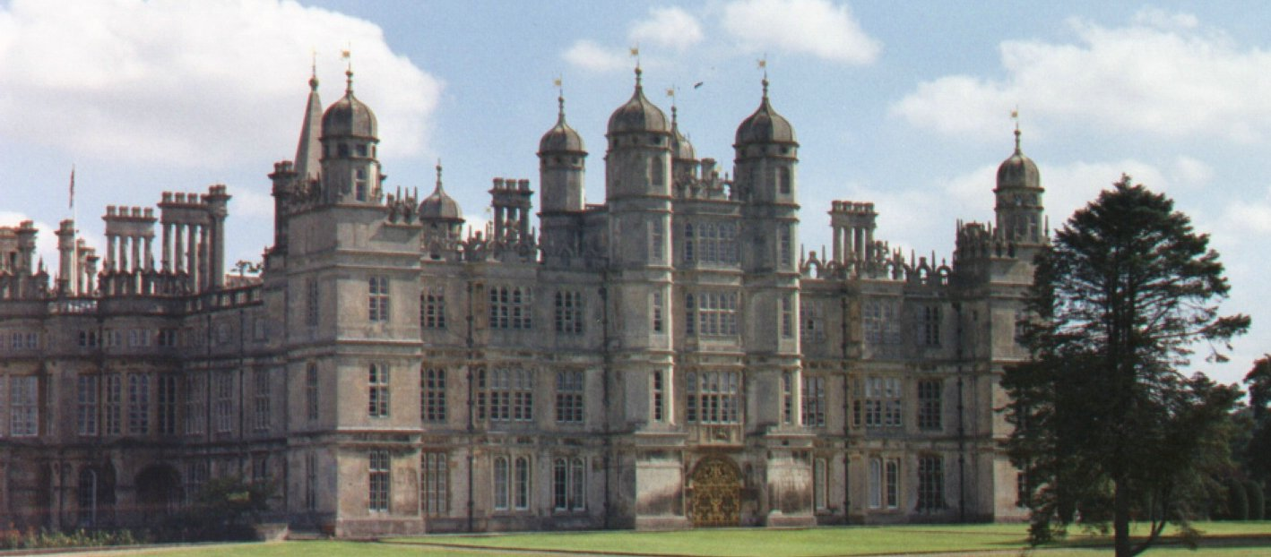 Author's original description: Burghley House. Taken during the 2004 Horse Trials. I, created this image in 2004, and am the sole Copyright holder. I released it under the GFDL , and now place it in the public domain. GWO (talk).